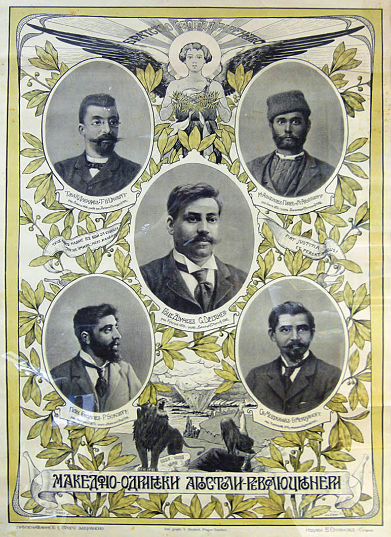 group of portraits: Toma Davidov, Mihail Apostolov, Gotse Delchev, Petar Sokolov and Slavi Merdzhanov